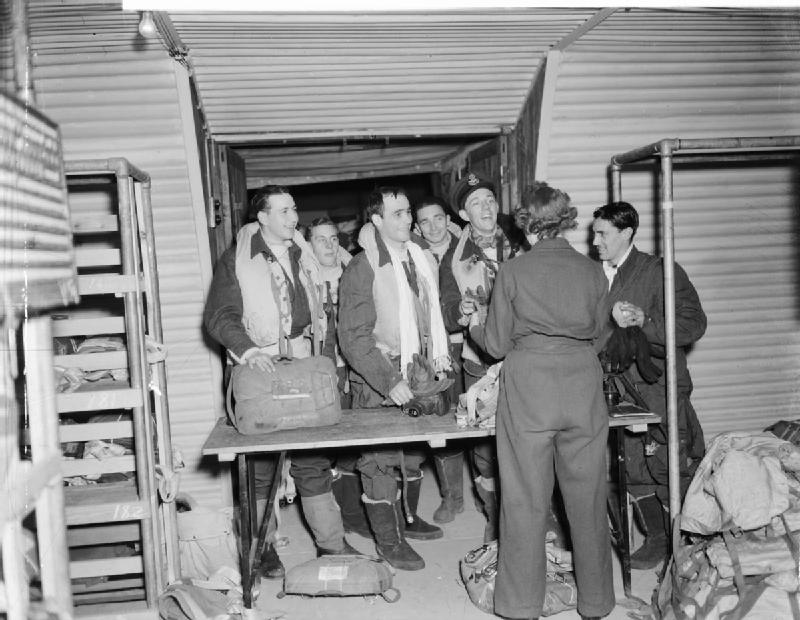 The crew of a Handley Page Halifax of No 51 Squadron RAF hand in their parachutes at RAF Snaith, Yorkshire on their return from a bombing raid on the Ruhr, Germany.